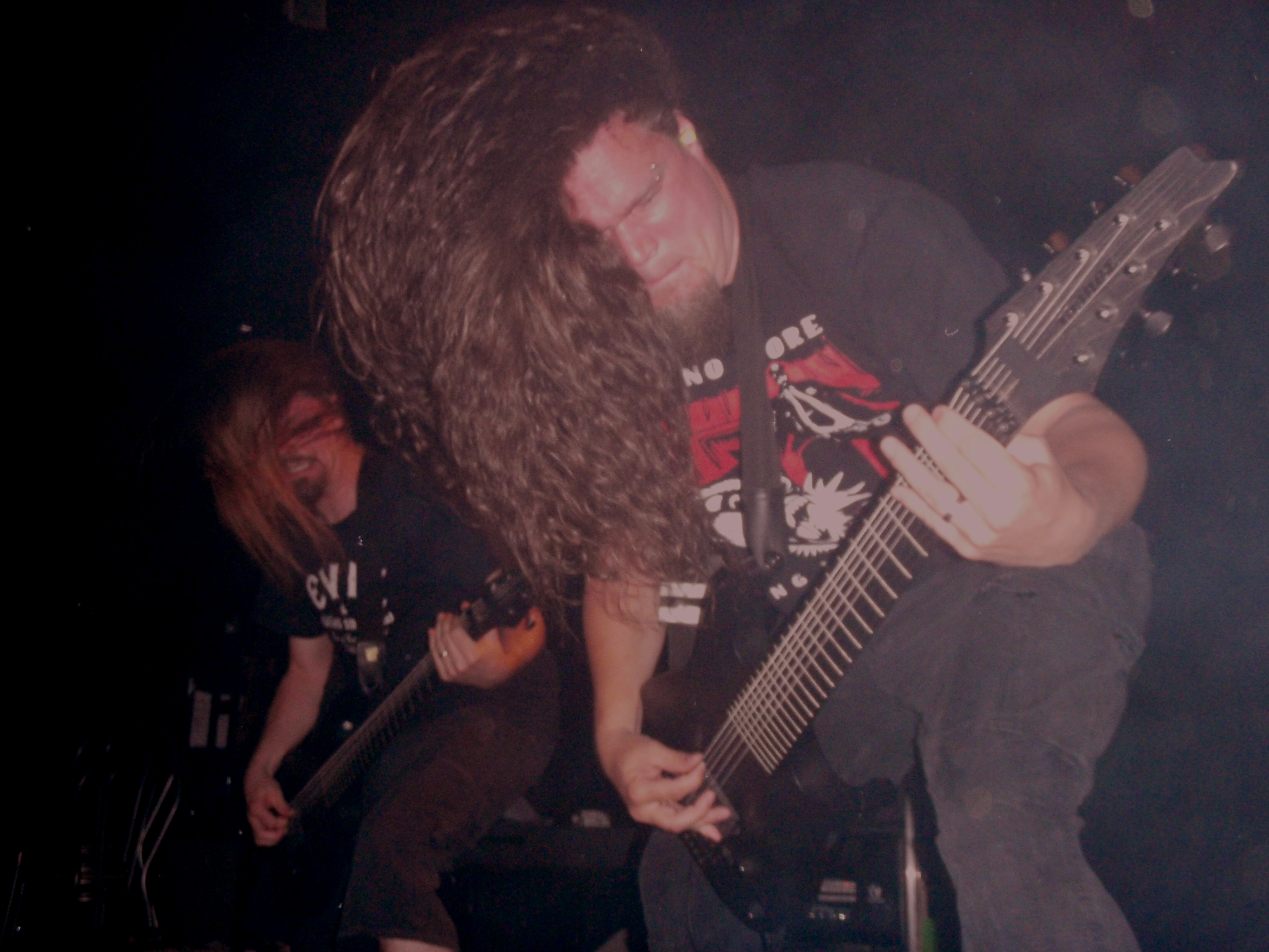 Mårten Hagström (right, wearing a T-shirt with the cover of King for a Day... Fool for a Lifetime by Faith no More) and Fredrik Thordendal (left) from Meshuggah performing in Prague, June 25. 2008.